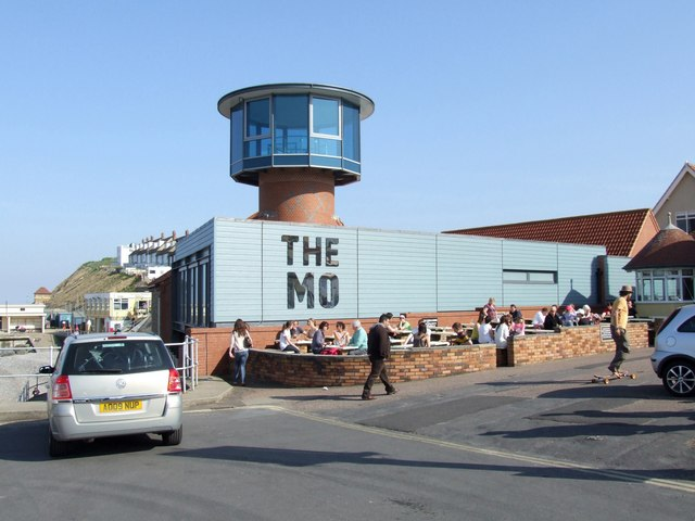 The Mo, Sheringham, near to Sheringham, Norfolk, Great Britain. In December 2006 Sheringham was successful in its bid to the Heritage Lottery Fund for a major grant to build a new museum. The £1.1 million project saw the conversion of 'the Mo' on Sheringham sea front into a major new attraction. The museum has an array of displays and artefacts as well as three of the towns historic lifeboats. The name Mo comes from a little girl who lived in Sheringham over 130 years ago and the museum tells her story and those of other Sheringham people